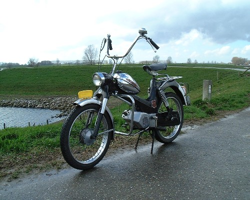 Tomos 4L moped.